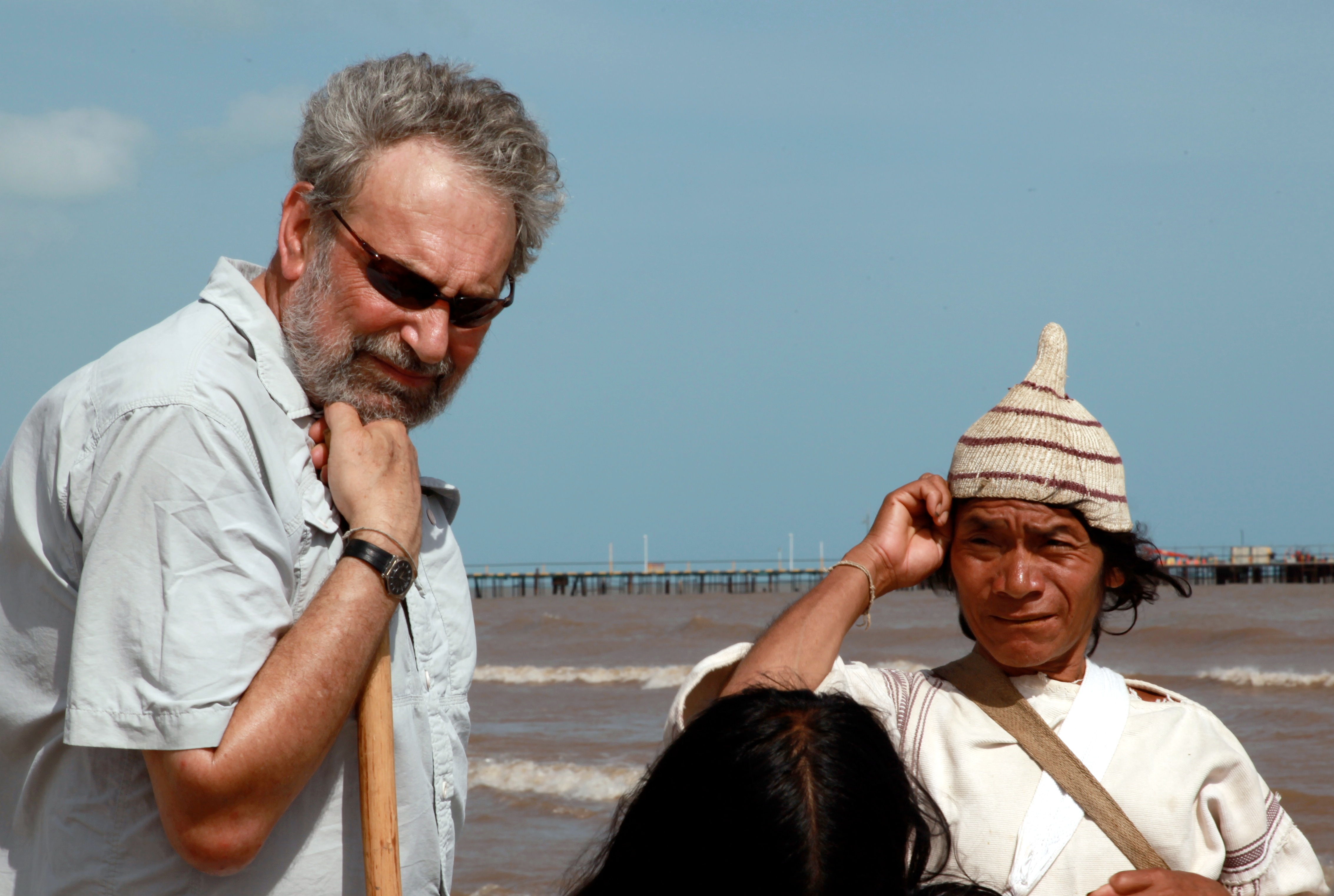 Alan and Shibulata in Santa Marta during the production of the documentary 'Aluna'. Just by the coal port is a Kogi special site. The expressions worn by Alan and Shibulata tell of their dismay at the pollution they encounter there - instead of the blue Caribbean, a black sea of coal dust.